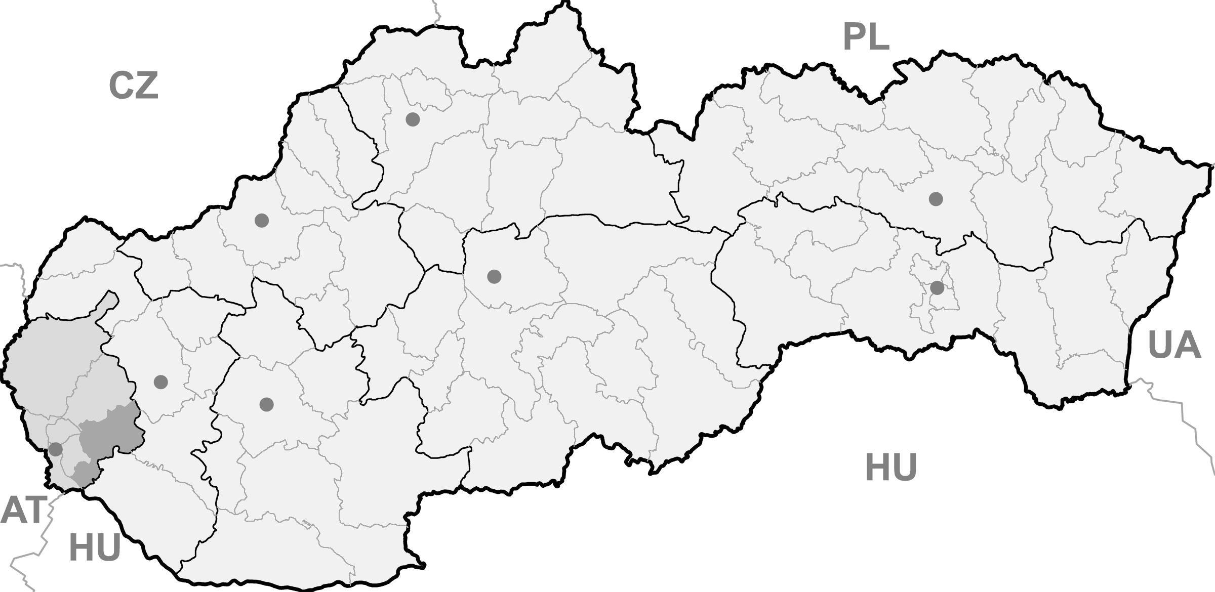 Map of Slovakia, Senec district and Bratislava region highlighted